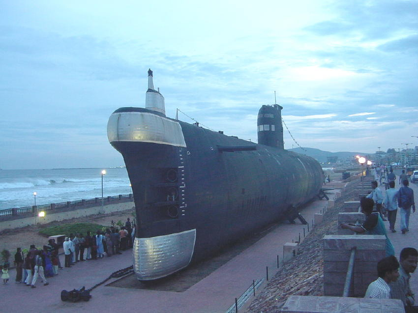 Submarine museum Vizag